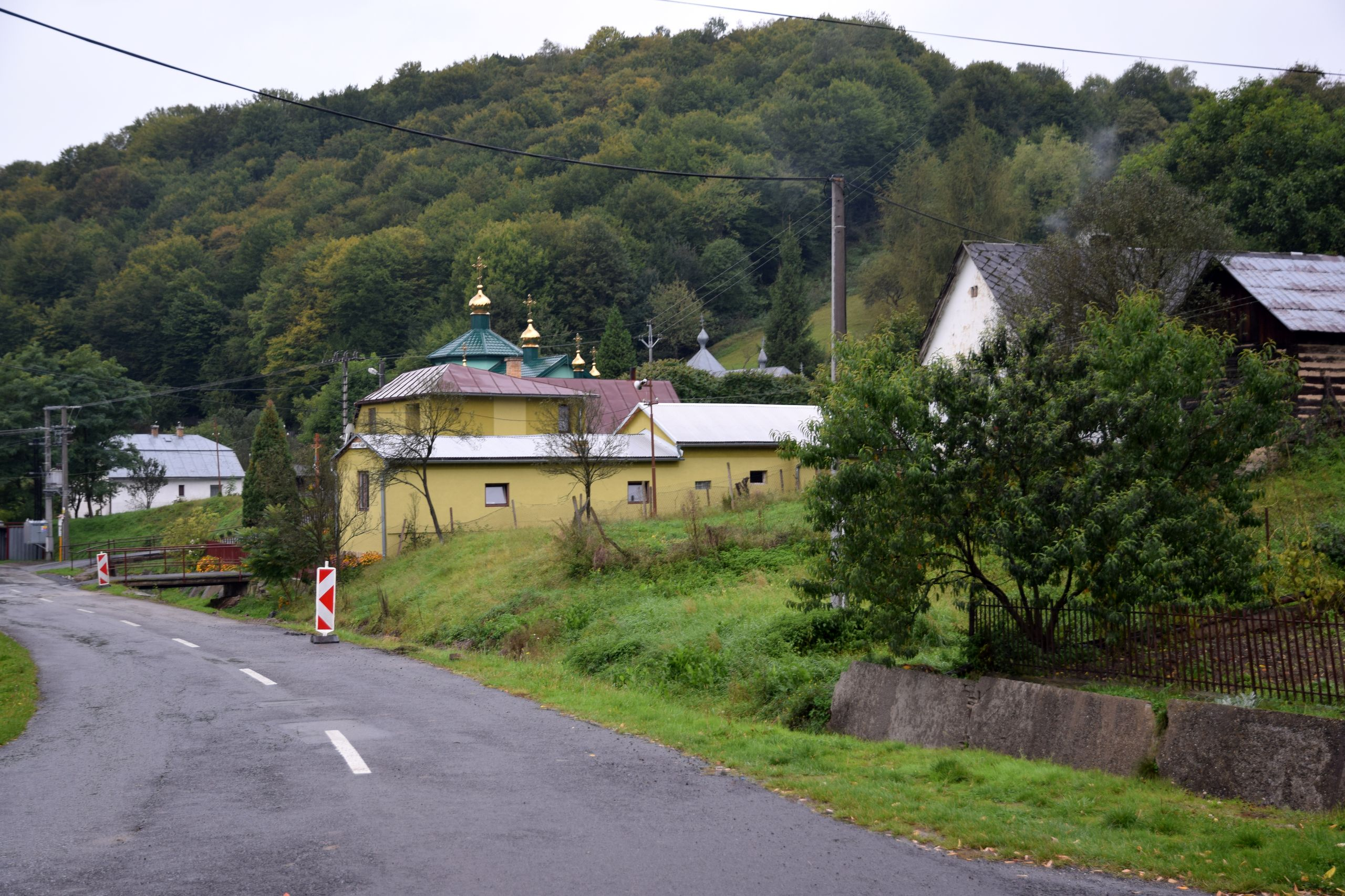 Krajné Čierno, center of village